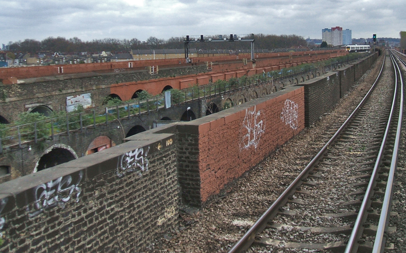 The overgrown branch line to Bricklayers Arms depot slopes downwards between the two viaducts. (This view is looking away from London Bridge and towards New Cross). Long Slope Page - More pictures of the branch line into Bricklayers' Arms - Maps & pictures of Bricklayers' Arms Loco depot today